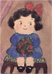 Watercolour by Grand Duchess Anastasia